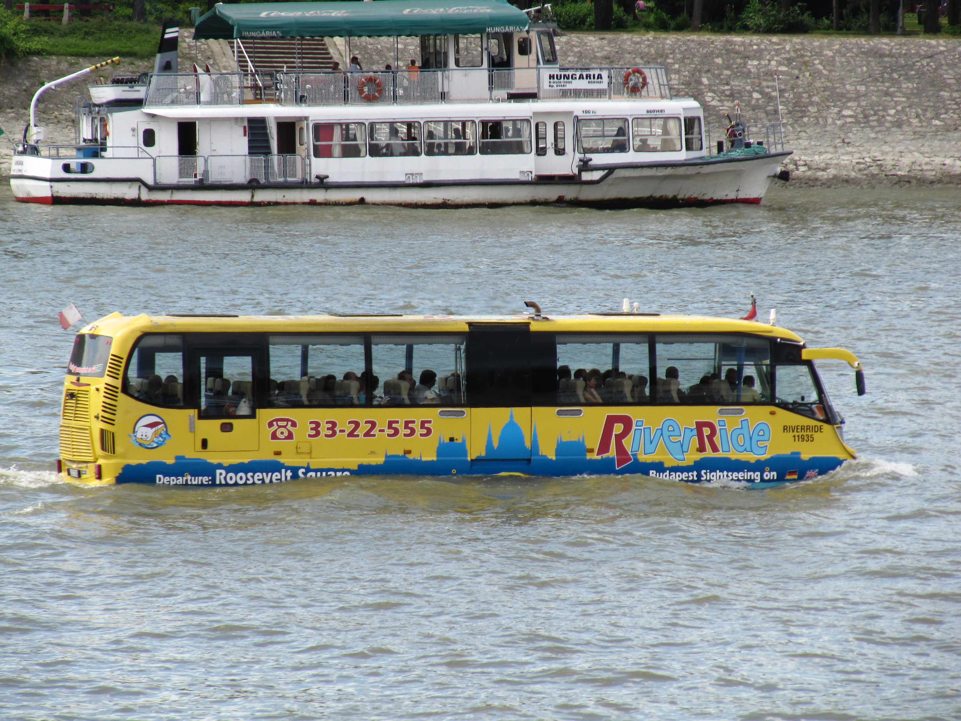 AmphiCoach GTS-1 on the Danube in Budapest